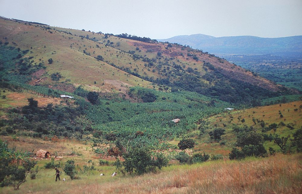 Karagwe District near Bugene, Tanzania